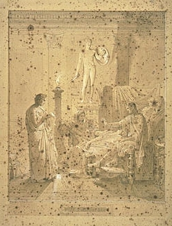 Ingres, sketch for "Tu Marcellus eris" in the Louvre, département des Arts graphiques